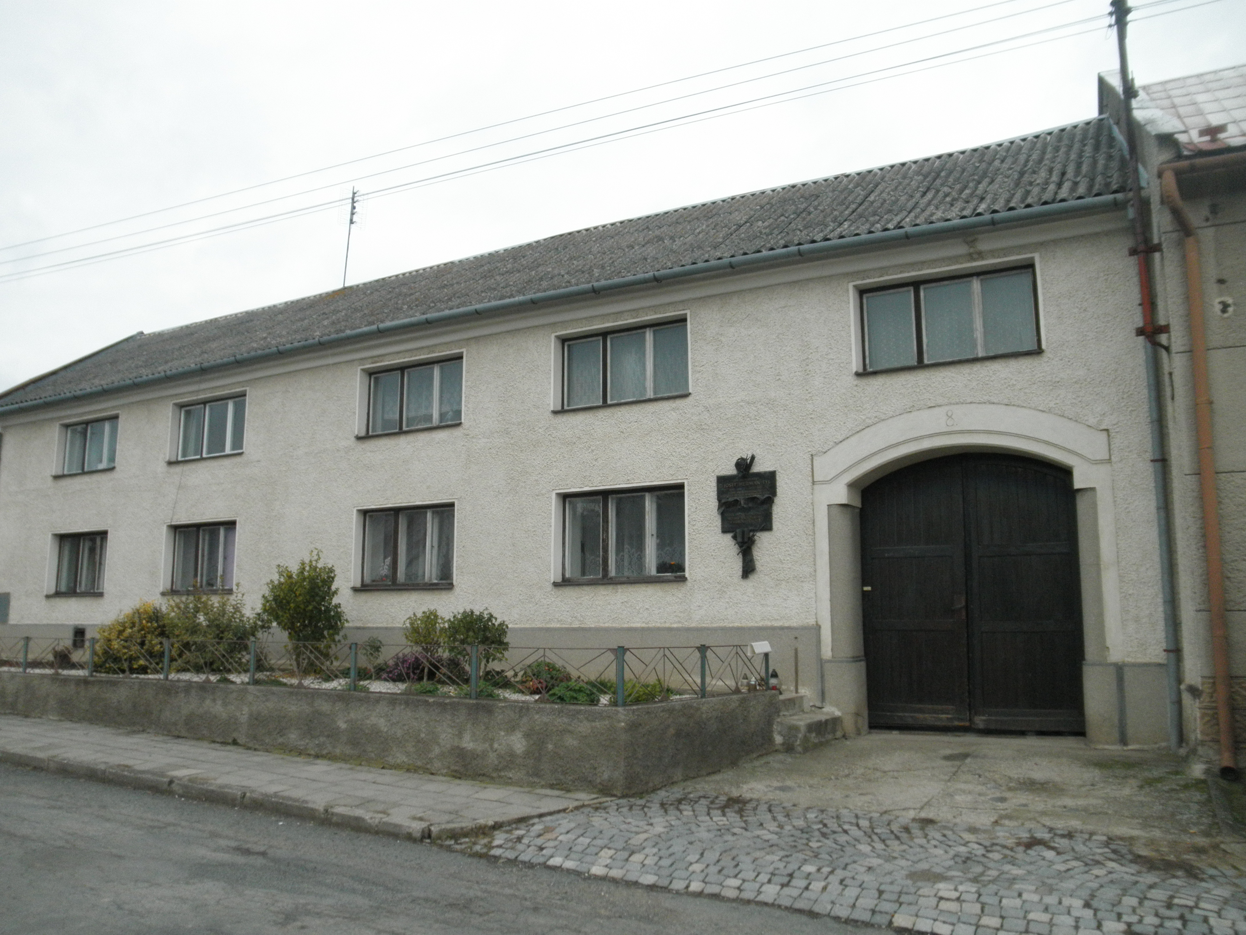 Birthplace of Josef Heřman Tyl in Cakov. There is also bronze memorial plaque.